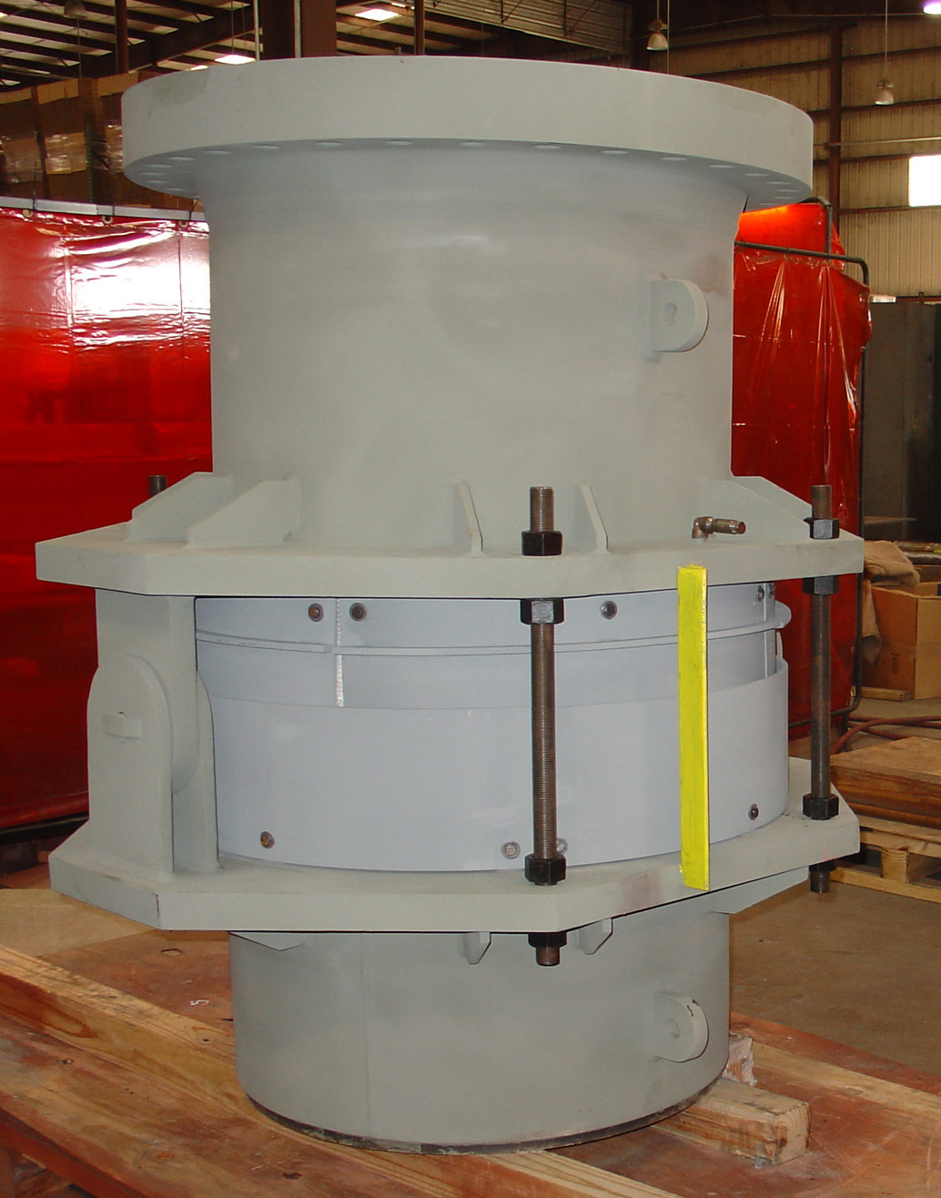 This is a hinged expansion joint designed and manufactured by U.S. Bellows, Inc.